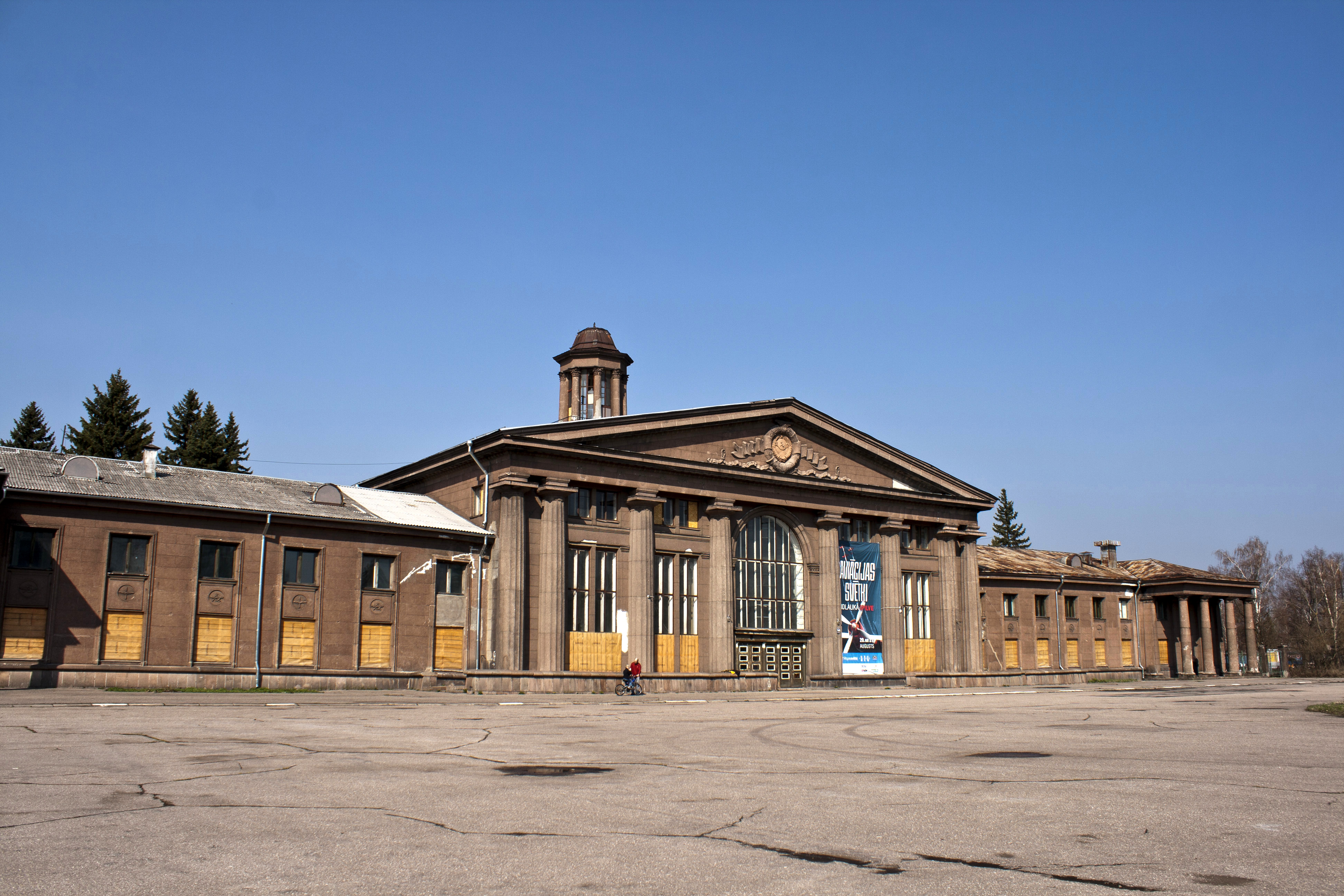 Abandoned Spilve aerodrome